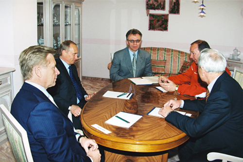 MOSCOW. President Putin chairing a meeting with head of the Russian Olympic Committee Leonid Tyagachev, chairman of the State Sport Committee Vyacheslav Fetisov (centre), head of the Russian Football Union Vyacheslav Koloskov (right) and head coach of the Russian football team Oleg Romantsev.